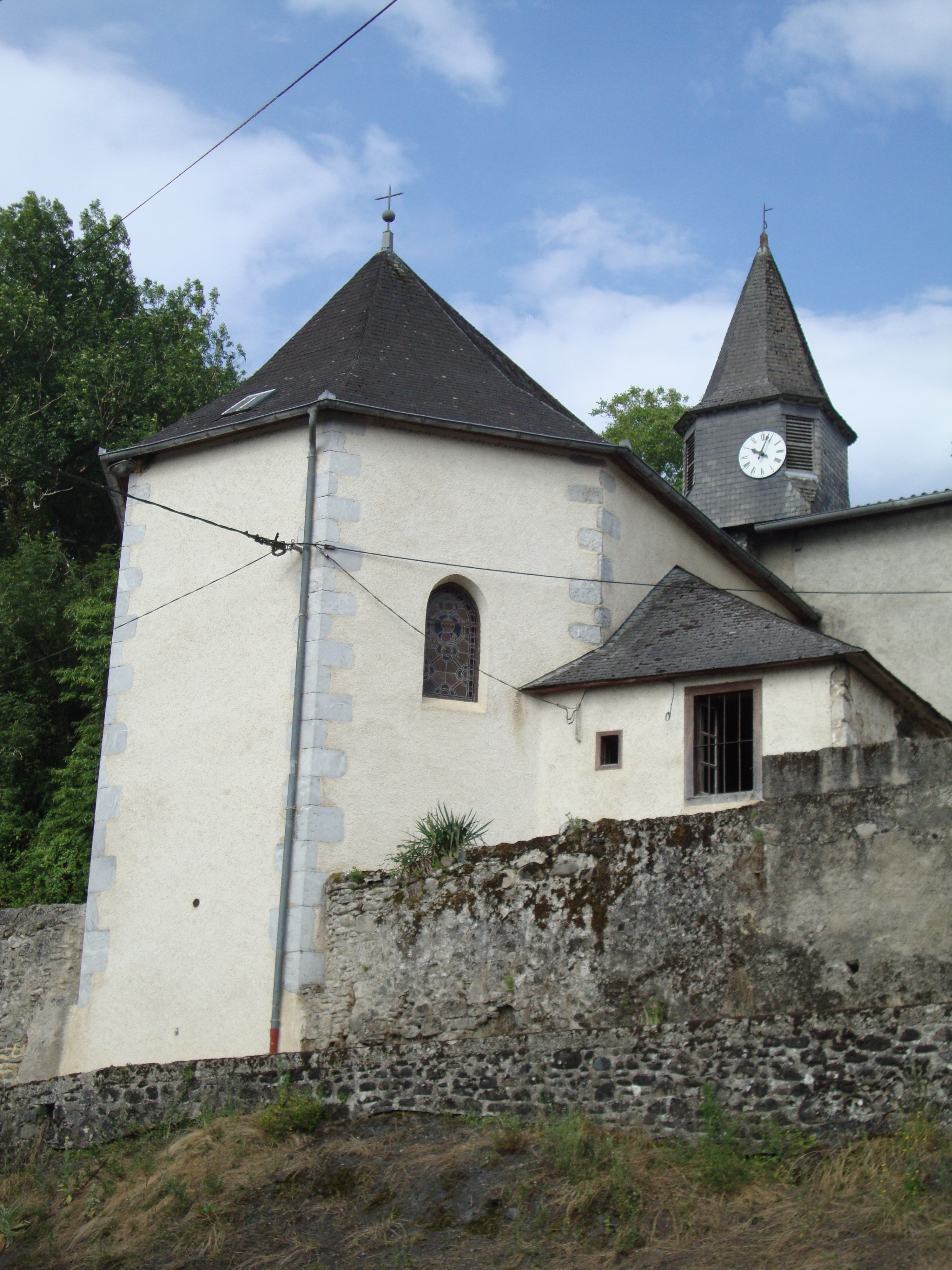 Ossas (Ossas-Suhare, Pyr-Atl, Fr) church with apse.JPG